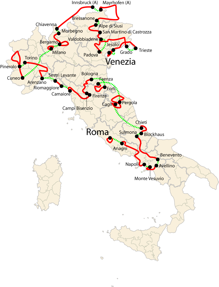 Giro d'Italia (language IT)